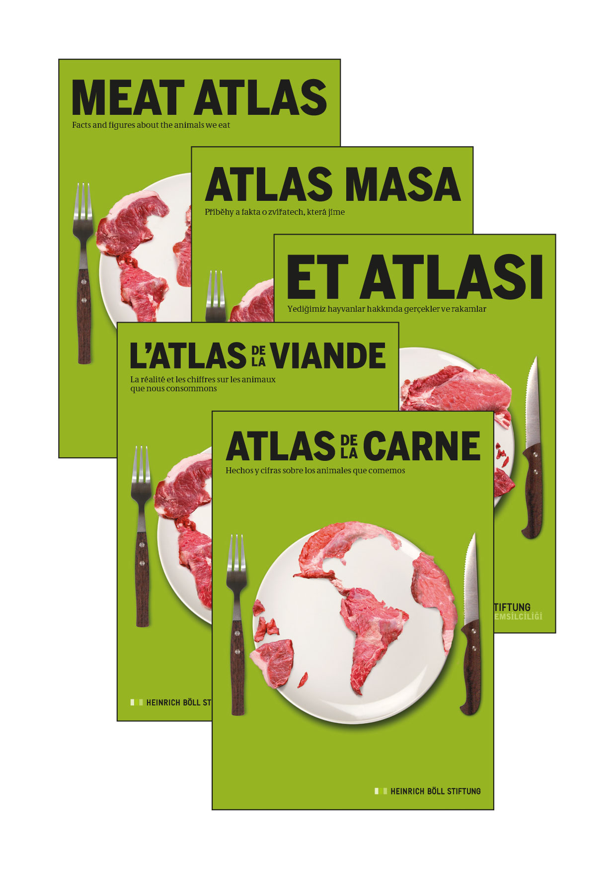 Covers of international editions of the Meat Atlas